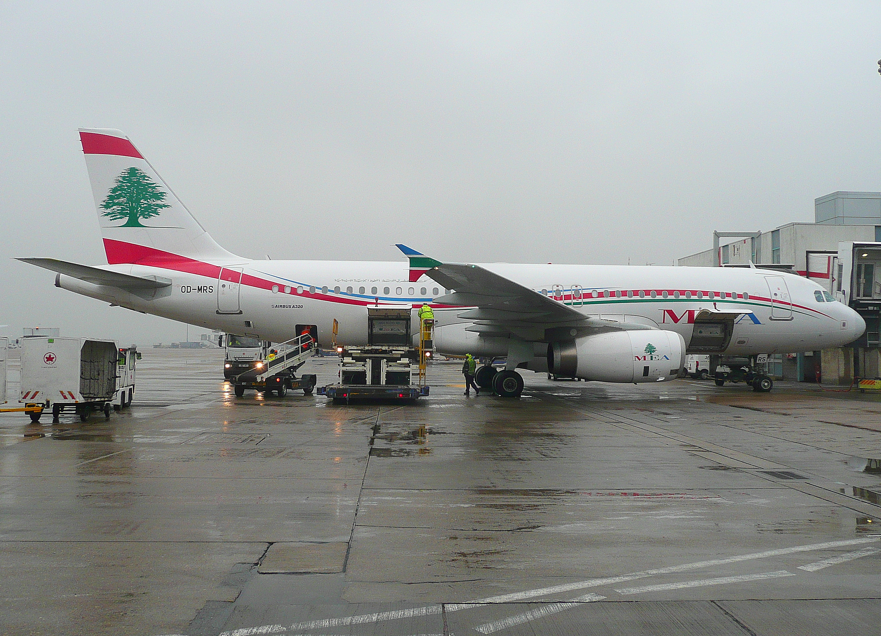 OD-MRS A320 MEA on std 323 duringit's first visit